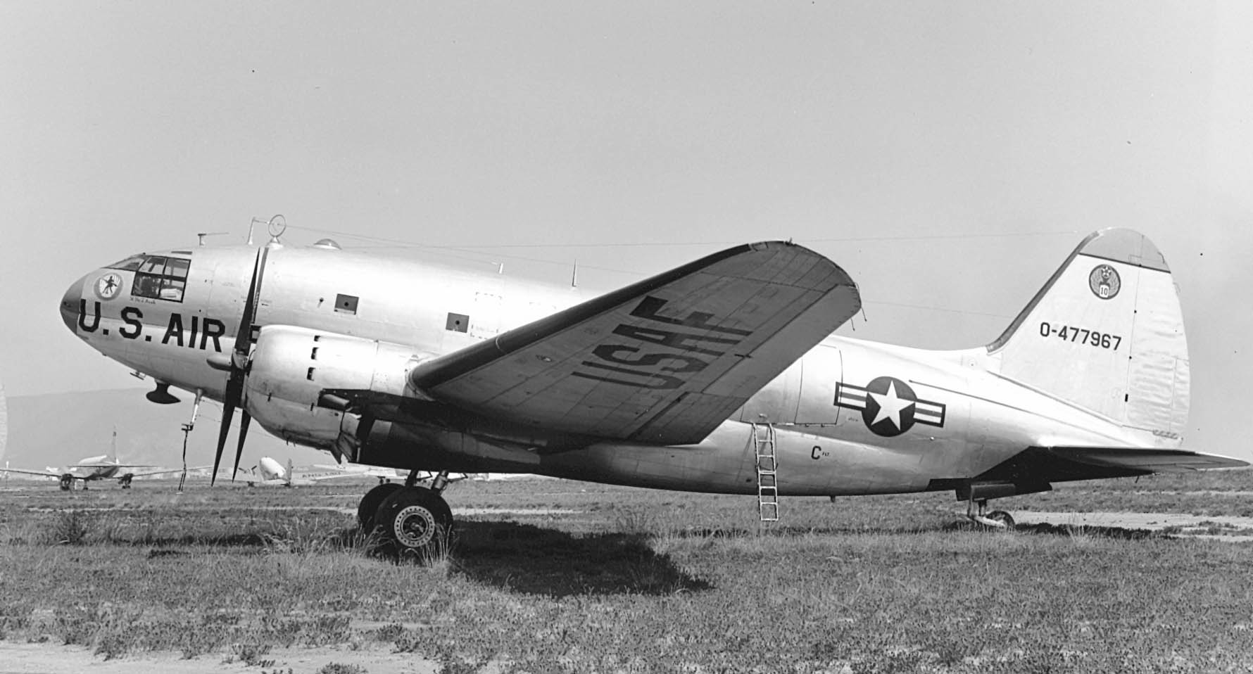 437th Troop Carrier Wing, 10th Air Force plane at San Francisco on August 13, 1955.